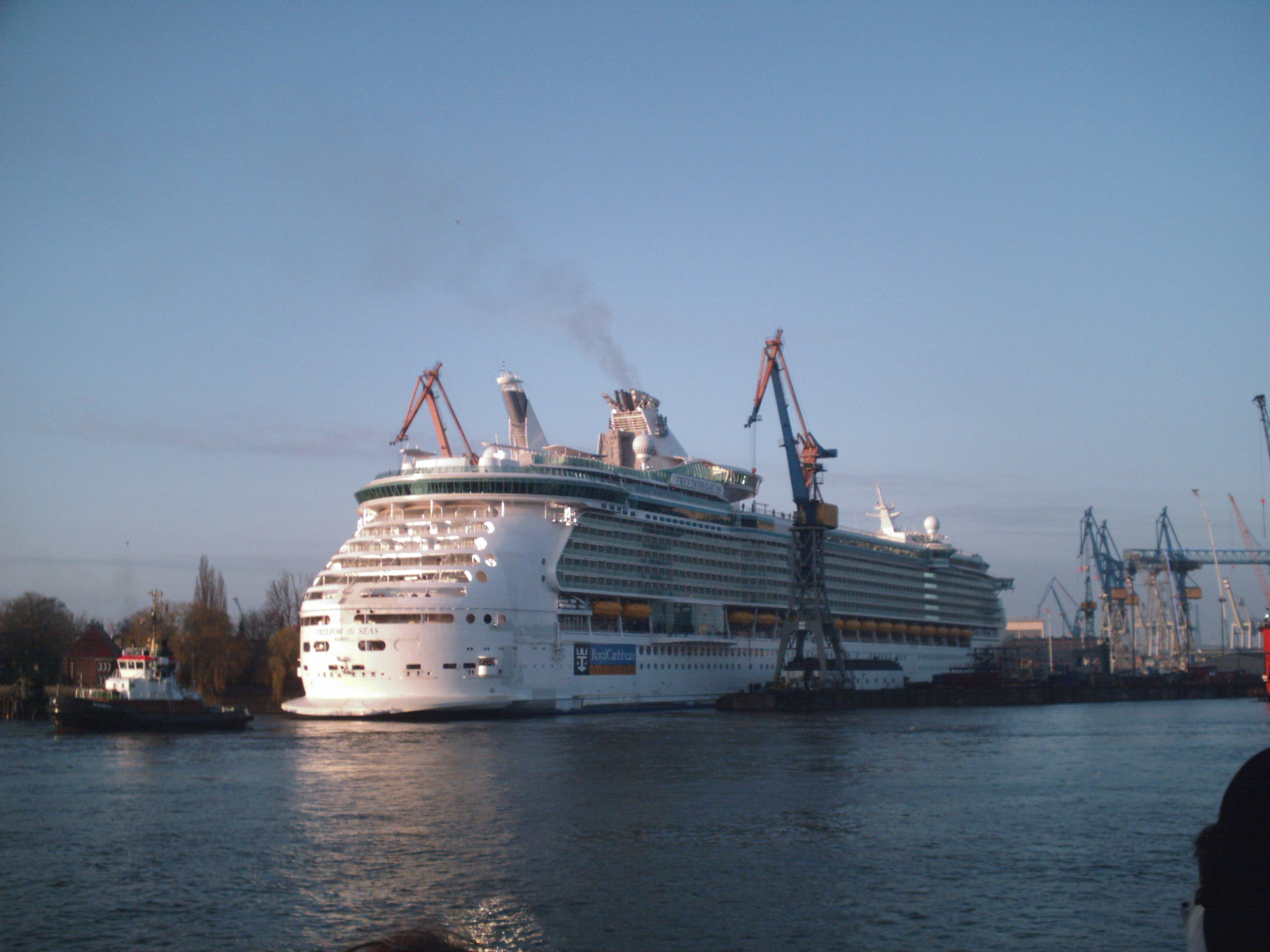 Freedom of the Seas, Eindockmanöver in Hamburg am 17. April 2006